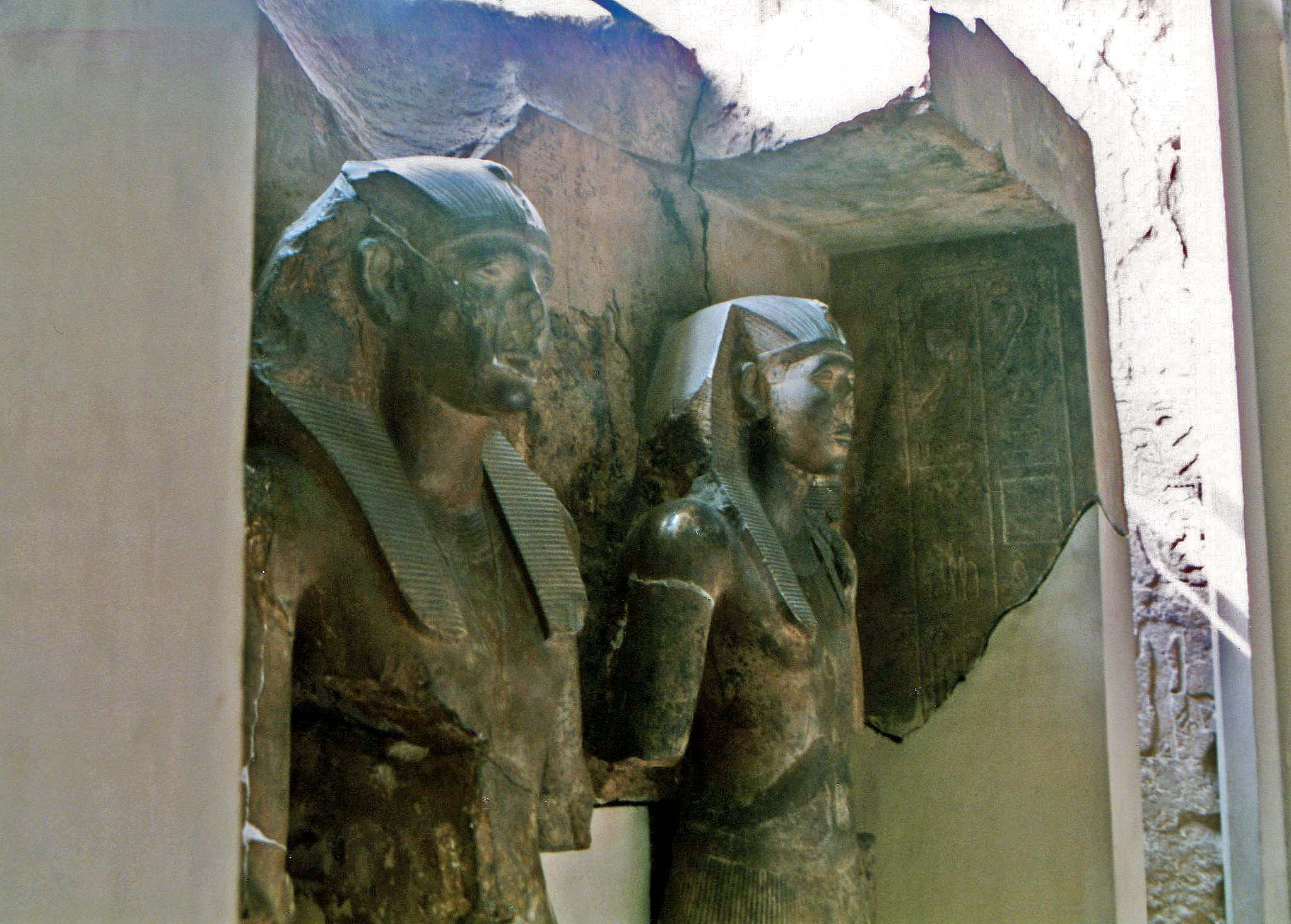 Statues of pharaoh Khasekhemre Neferhotep I from his naos, now in the Egyptian Museum, Cairo, JE 37497 = CG 42022